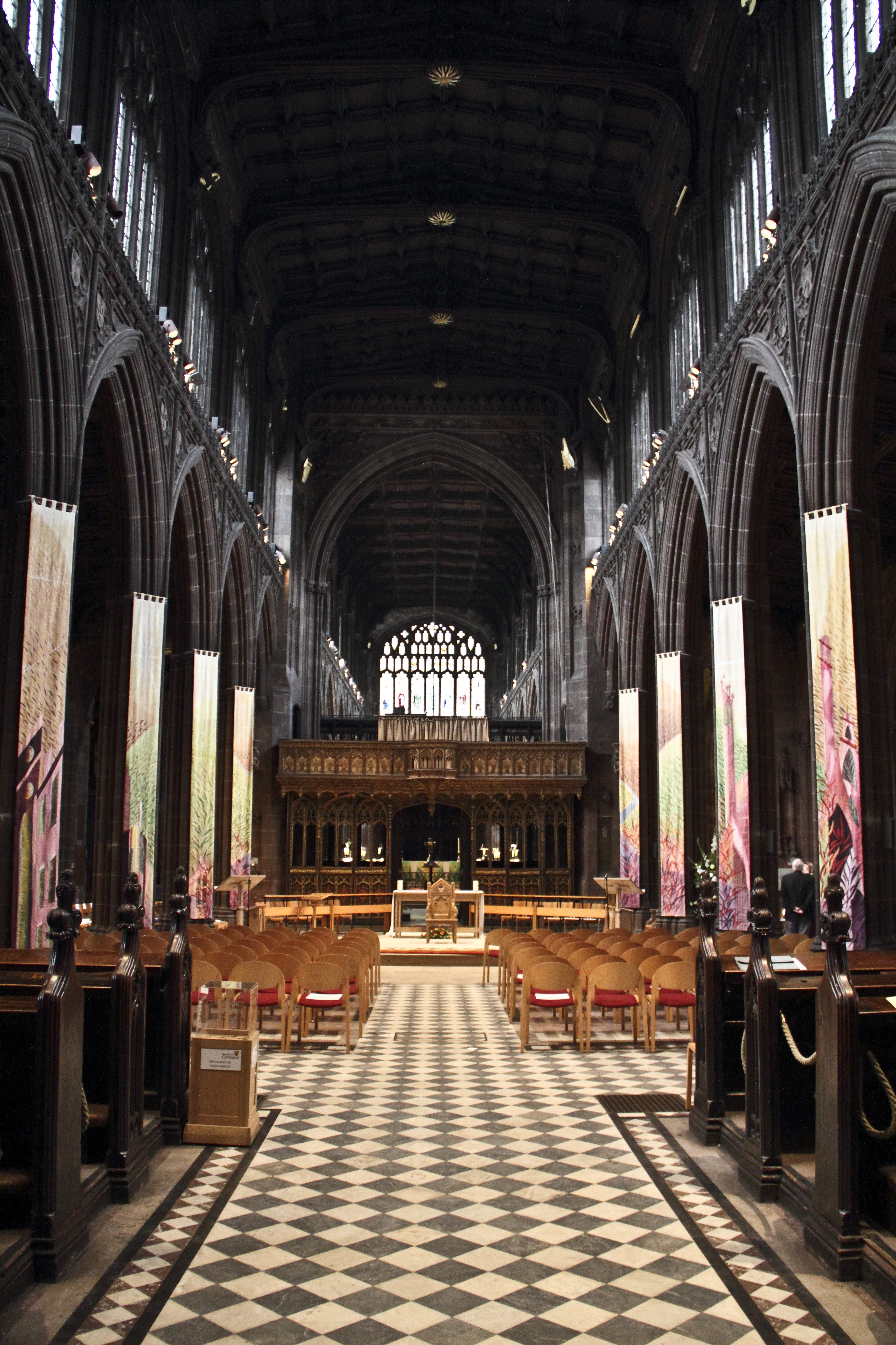 Here is an interior shot of Manchester Cathedral. Located in Manchester, Lancashire, England, UK. You CAN view and download the full 18megapixel image in Flickr, check out the other sizes when viewing***